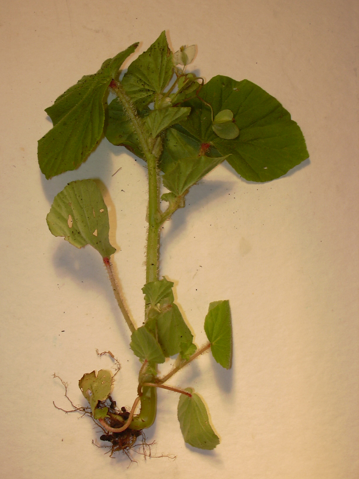 Begonia hirtella (plant). Location: Maui, Hana Hwy